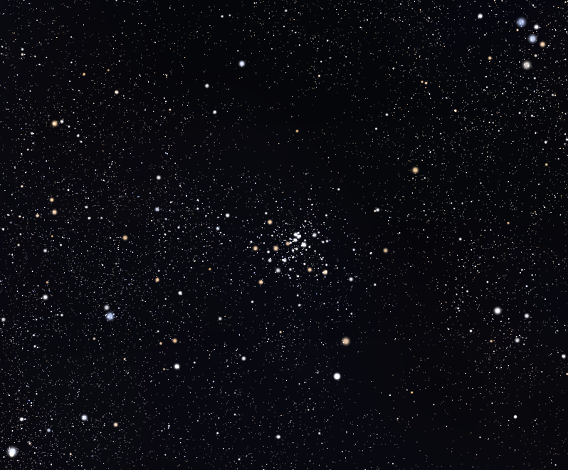 NGC 6124 (taken from Stellarium)